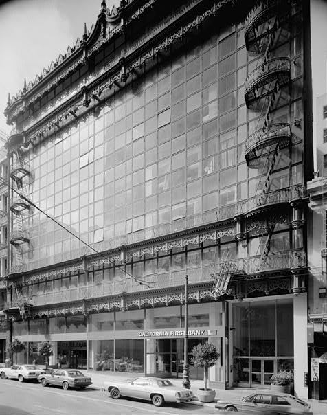 Hallidie Building, 130 Sutter Street, San Francisco, San Francisco County, CA. General exterior view.